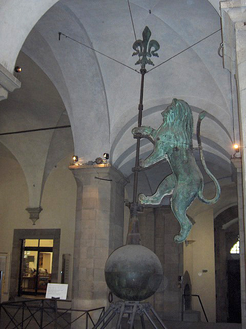 Symbolic lion; in the entrance of the Palazzo Vecchio, Florence, Italy Own photo - photo made by Georges Jansoone on 13 October 2005